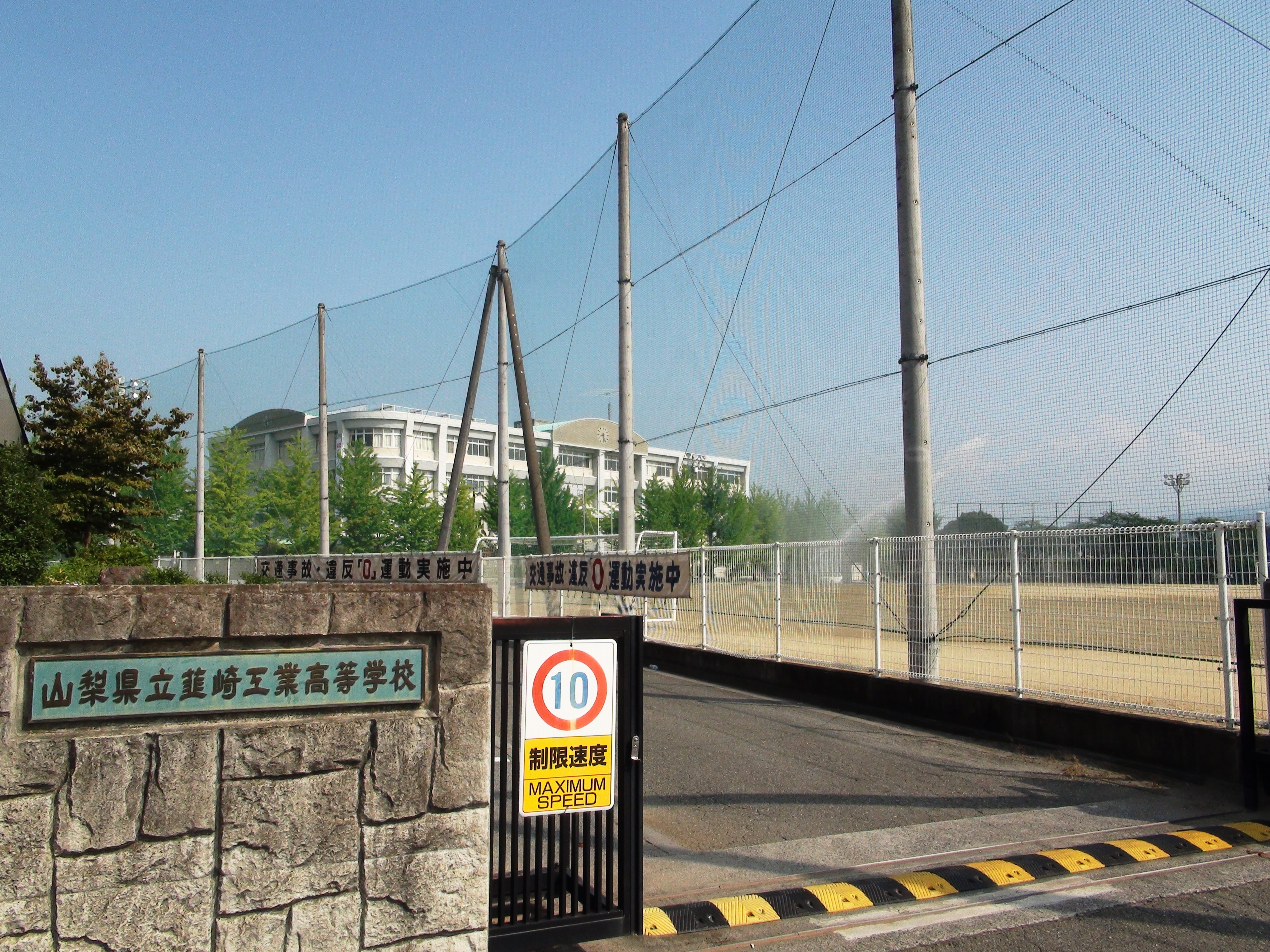 Nirasaki technical high school